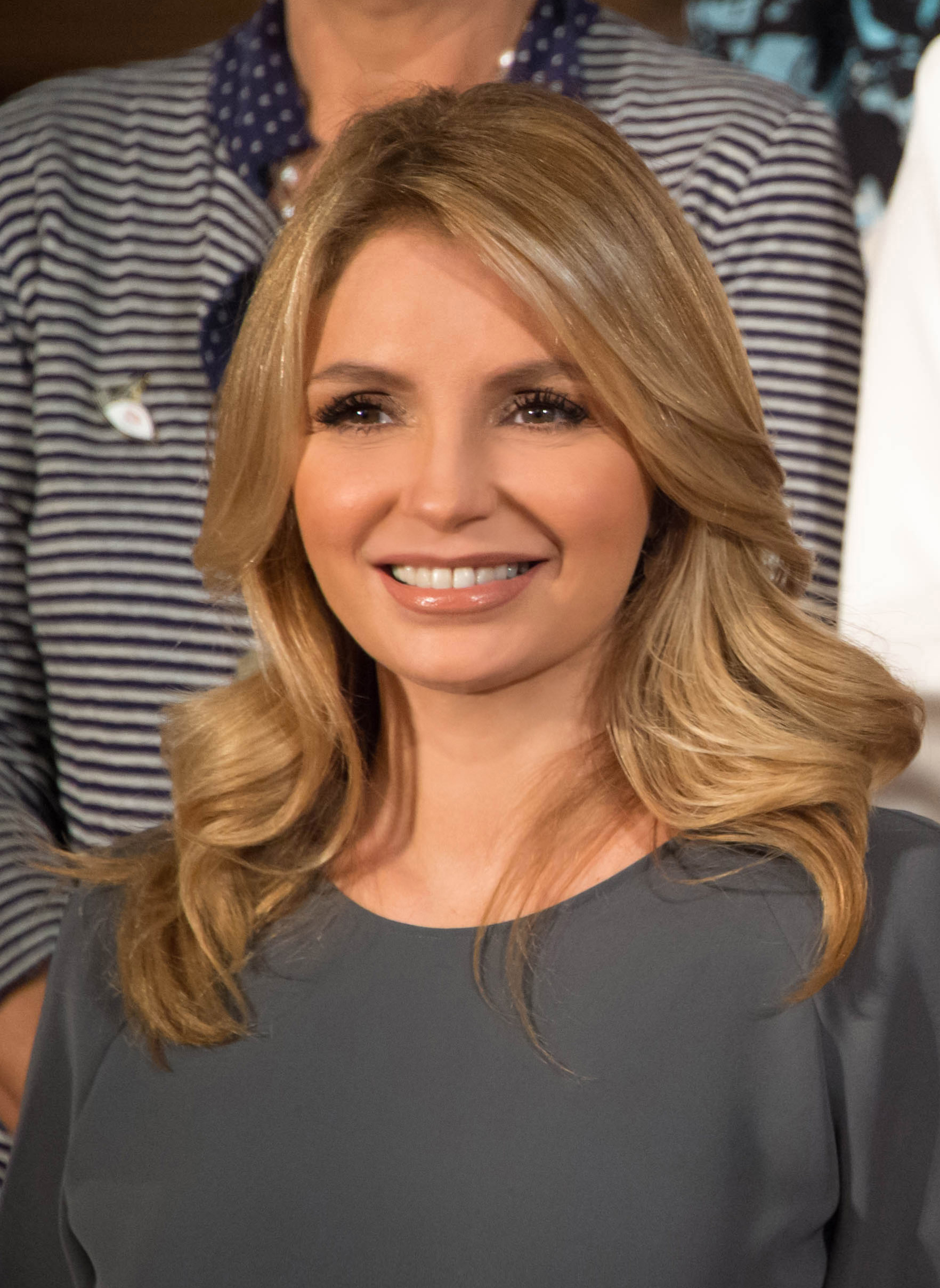 Angélica Rivera and Juliana Awada in Hamburg, July 2017